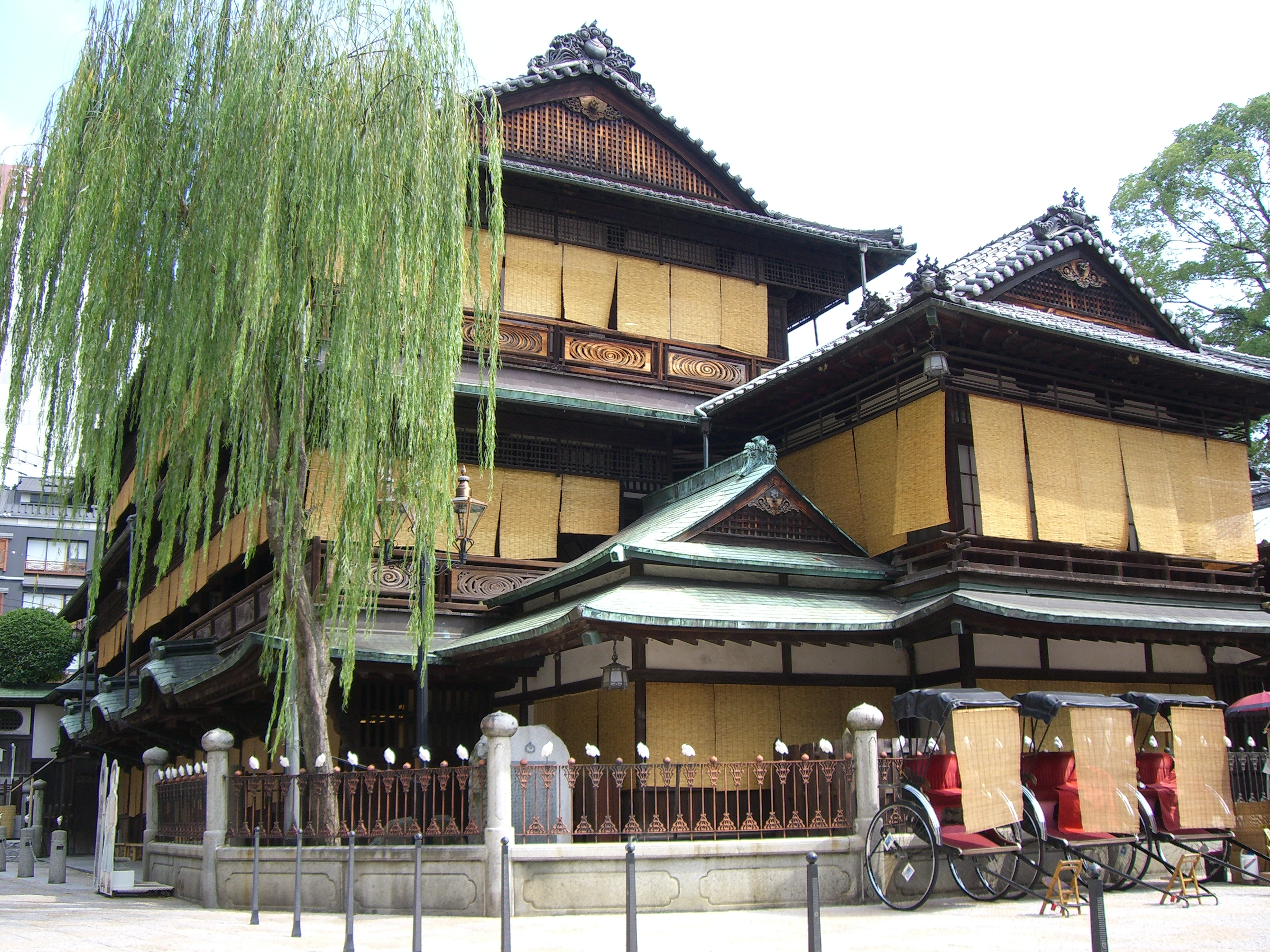 Dogo Hot Spring main building viewed from the northwest (Ehime JAPAN)